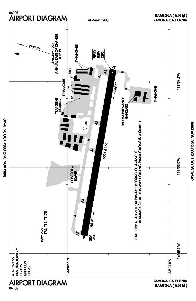 FAA airport diagram for VCV (Ramona Airport) in California, United States.